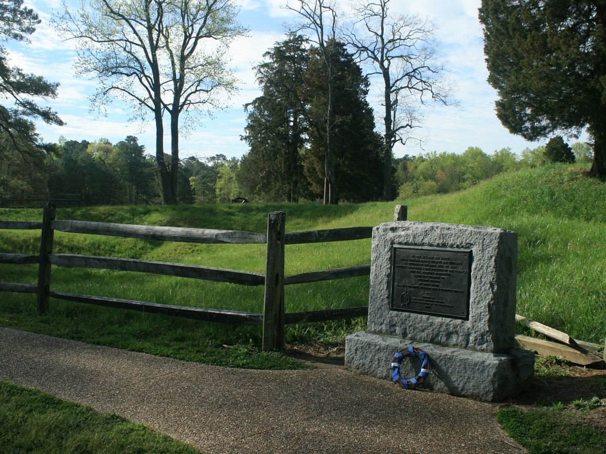 The Crater at Petersburg; "On this hill for one month South Carolina troops guarded the entrance to Petersburg and here July 30, 1864, suffered death from a mine exploded by the Federals. Here the surviving Carolinians under the command of Stephen Elliott by their valor turned a dreadful disaster into a glorious victory".---Erected by the South Carolina Division, United Daughters of the Confederacy 1923"